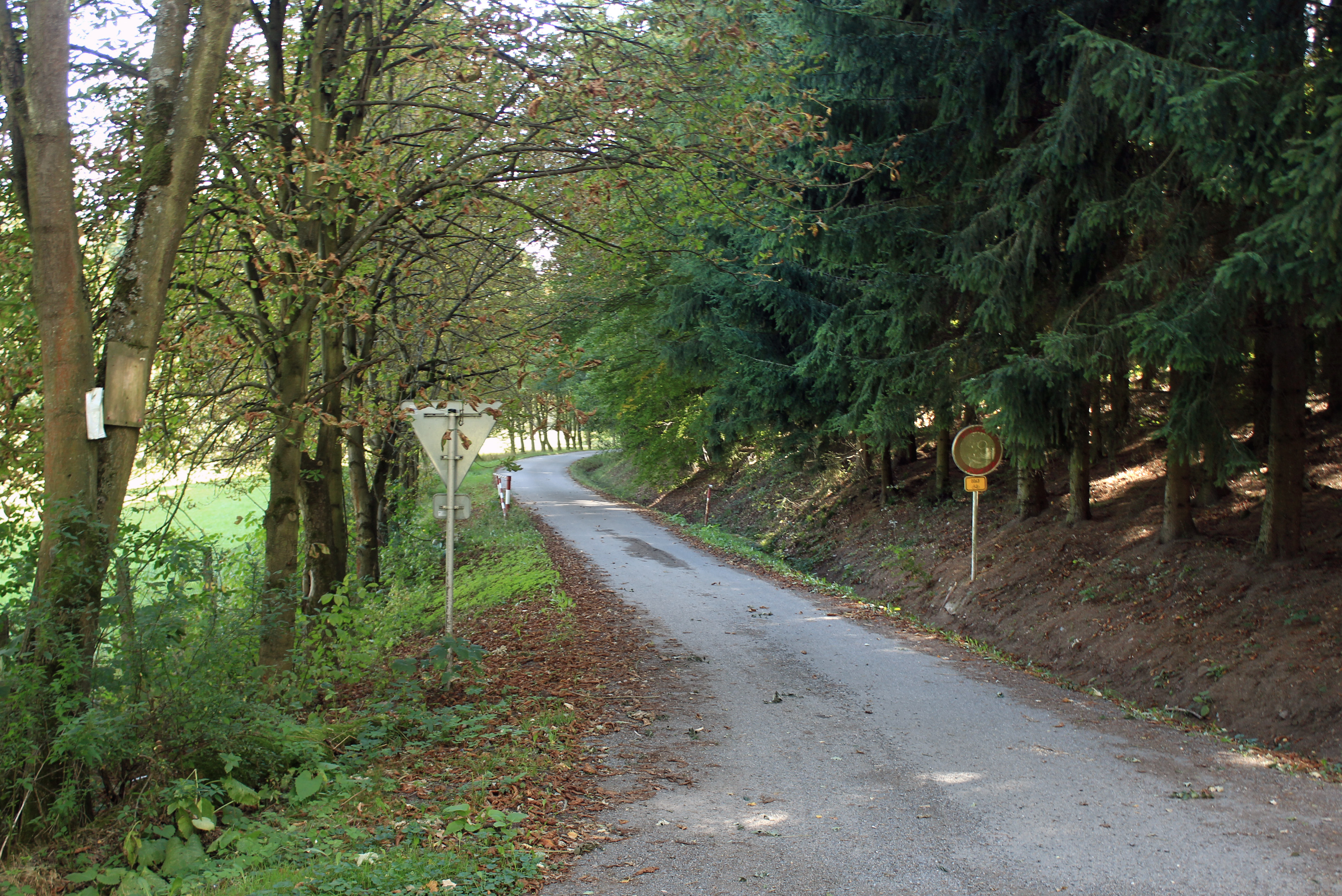 Road to Kožlí village, part of Neveklov, Czech Republic.